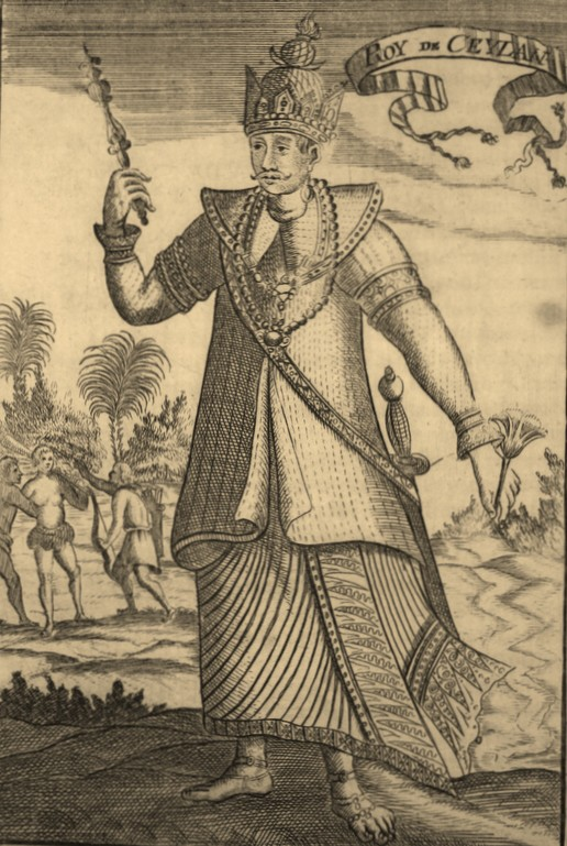 Portrait of King Vimaladharmasuriya I